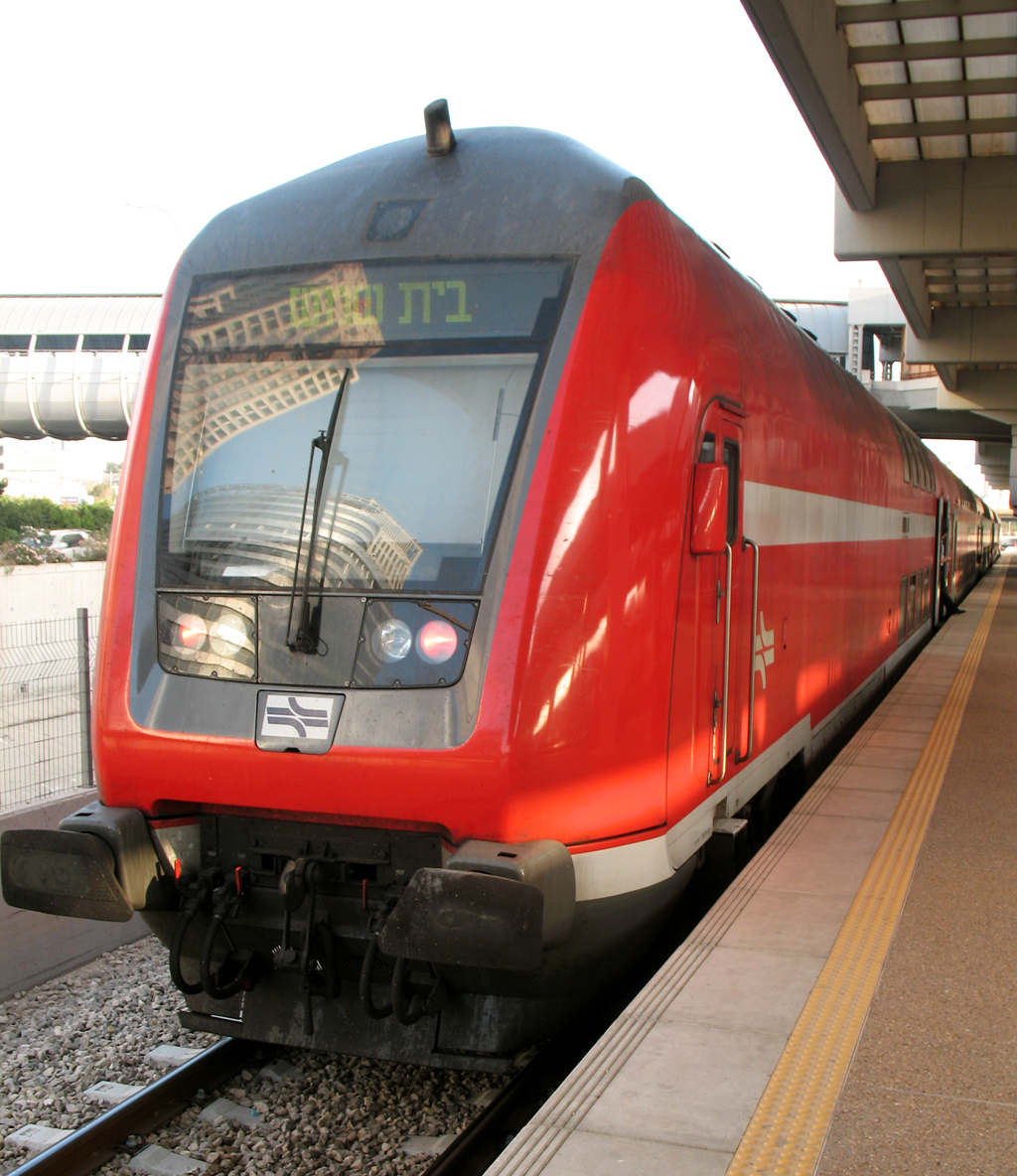 Bombardier double-deck coach, at Tel Aviv Merkaz railway station